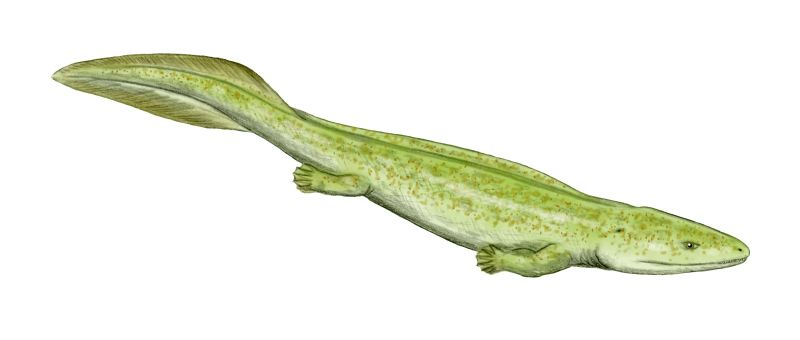 Elginerpeton pancheni, an early tetrapod from the Late devonian of Scotland, pencil drawing